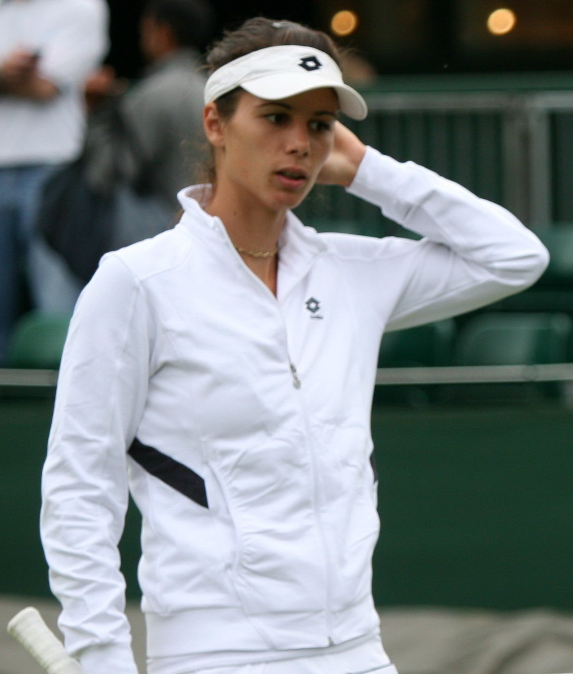 Tsvetana Pironkova, 2009 Wimbledon Championships first round